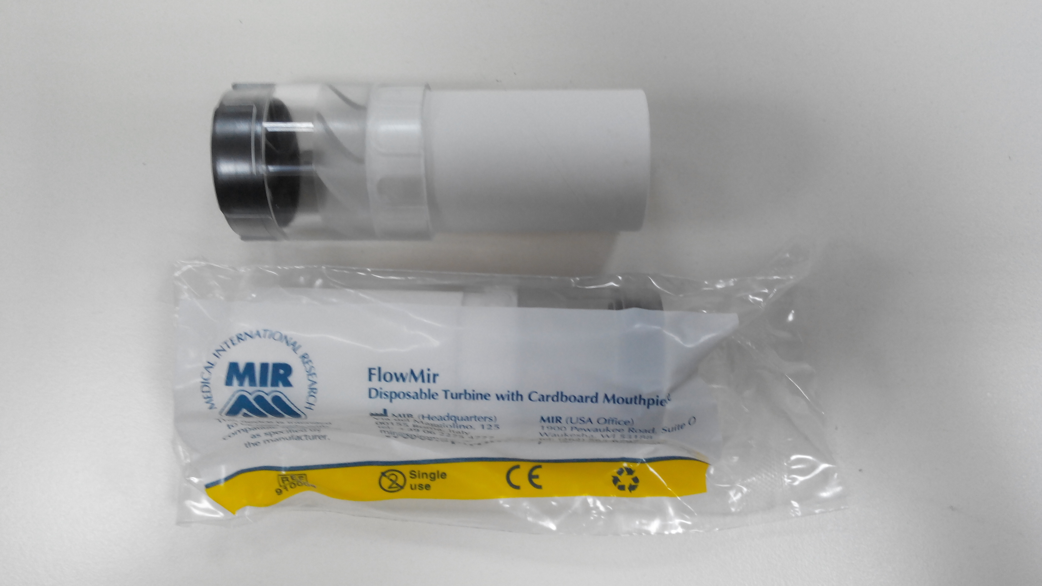 FlowMir® disposable turbine produced by MIR Medical International Research S.r.l.